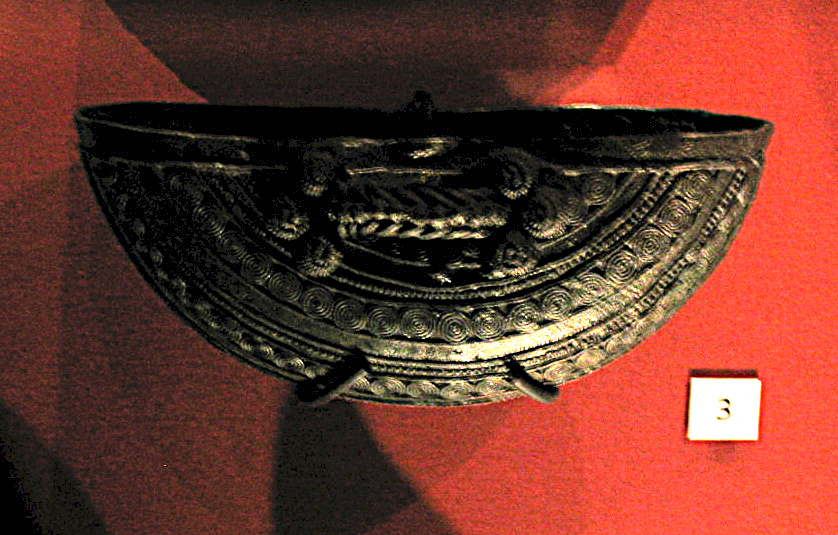 Igbo Ukwu bronze ceremonial vessel made around the 9th century AD. Photo taken at the British Museum, in its Africa section.